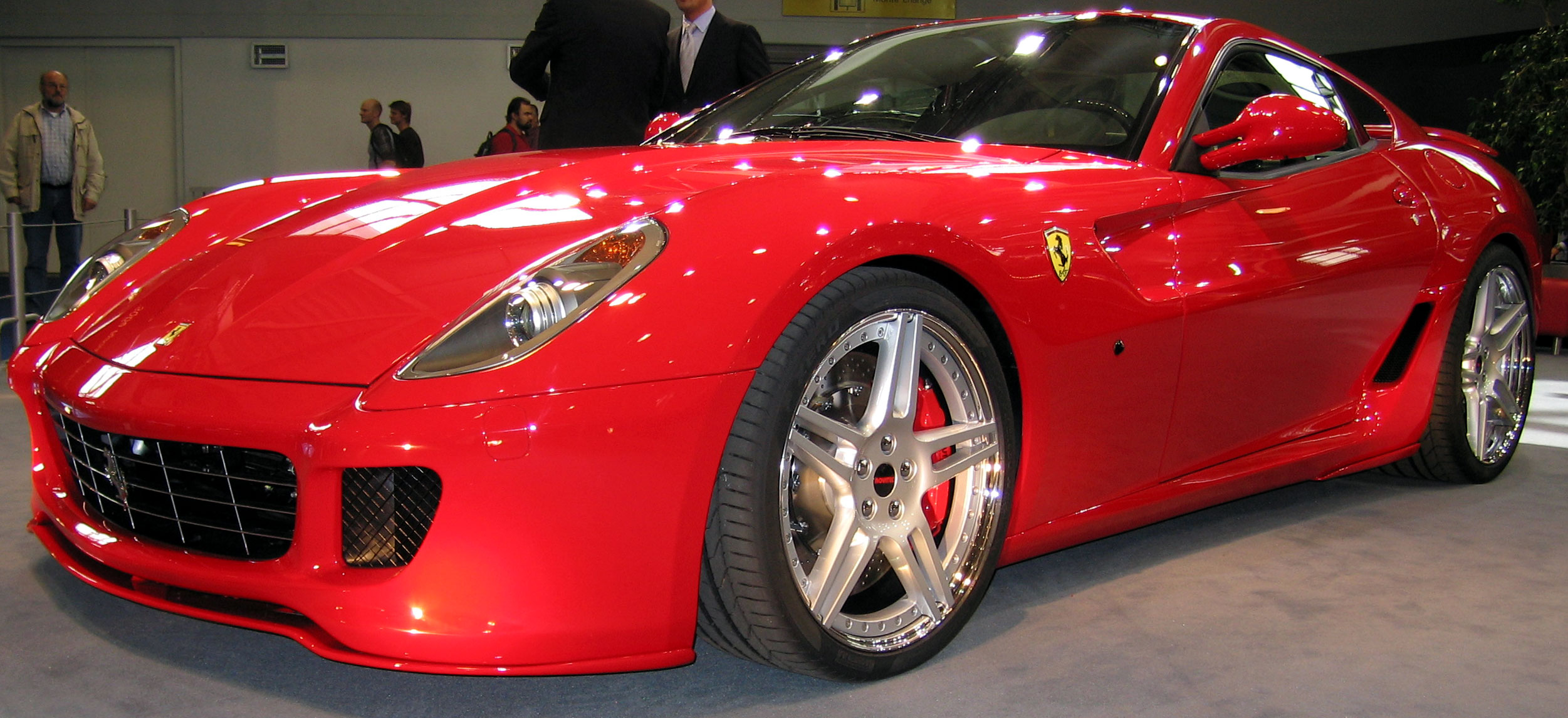 Ferrari 599 GTB by novitec rosso at the IAA 2007